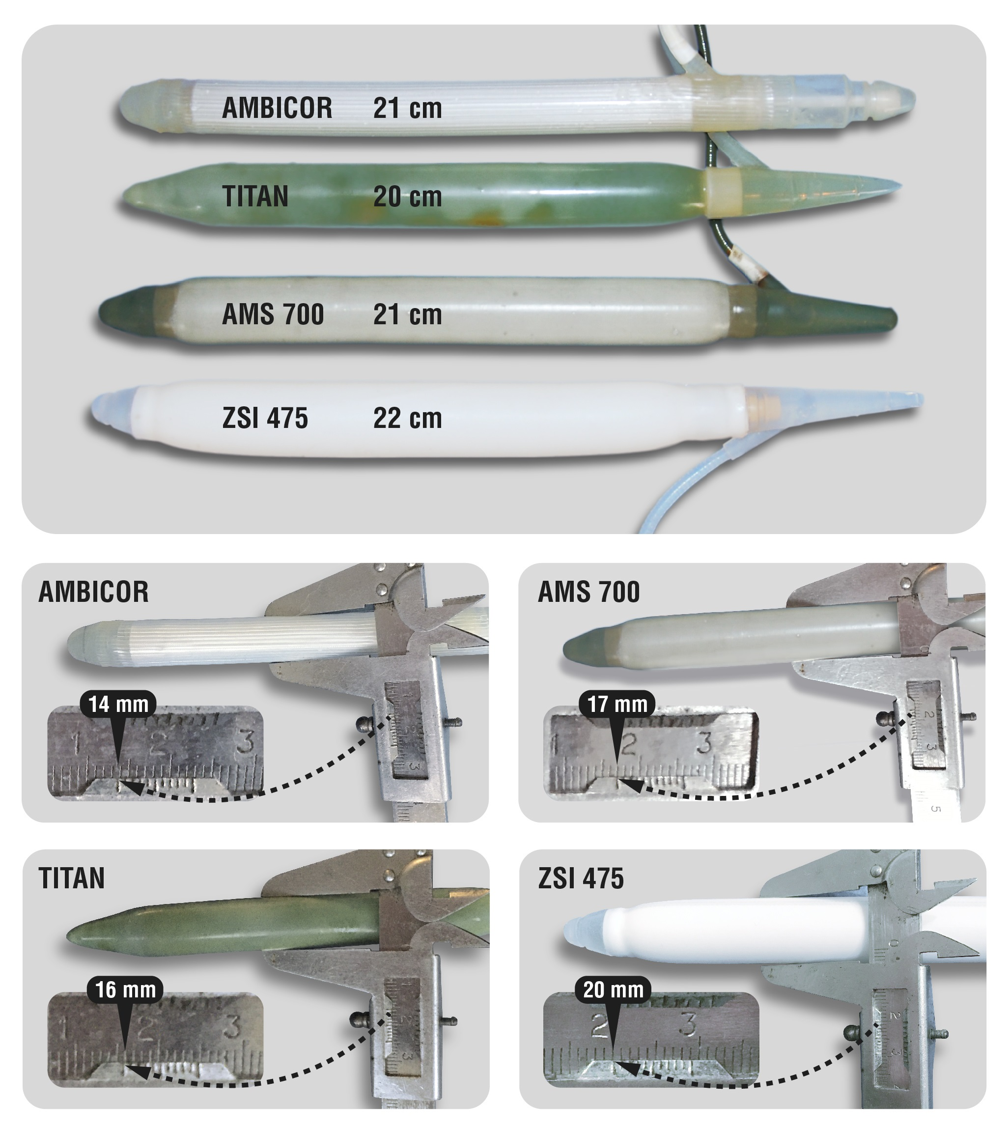 Comparison of cylinders of inflatable penile implants